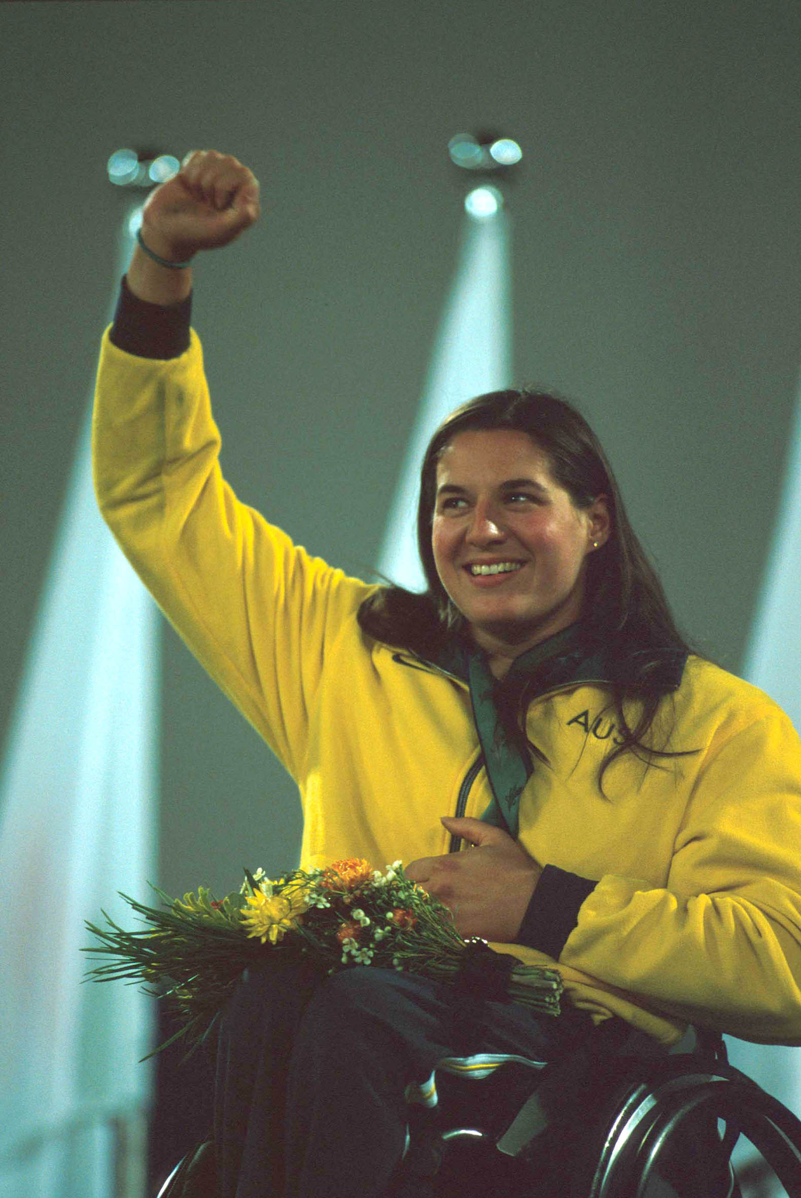 Australian wheelchair racer Louise Sauvage waves whilst on the medal podium at the 2000 Sydney Paralympic Games